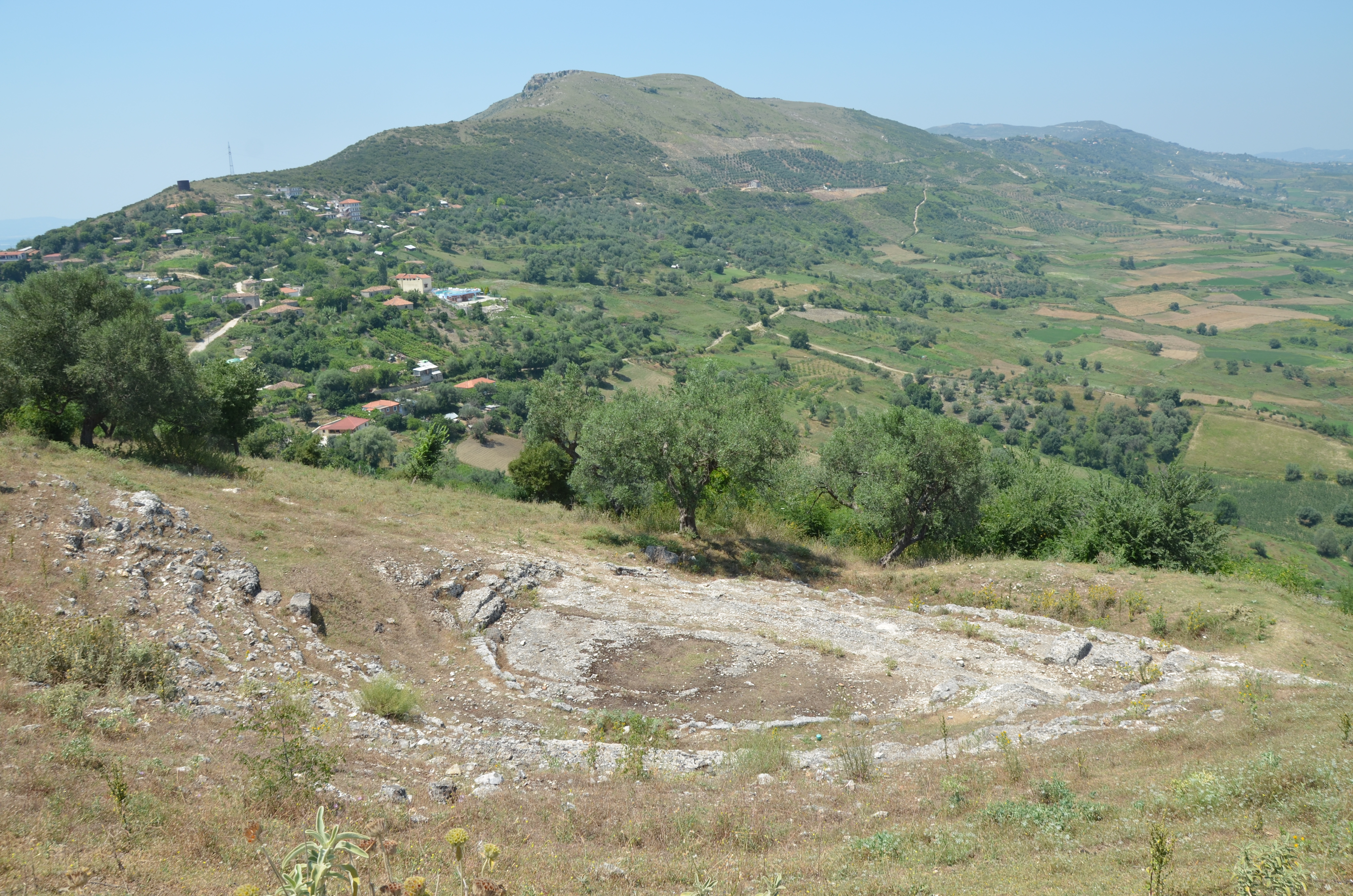 The Greek Theatre of Nikaia built in the 3rd century BC, it had a capacity of approximately 900 spectators, Illyria